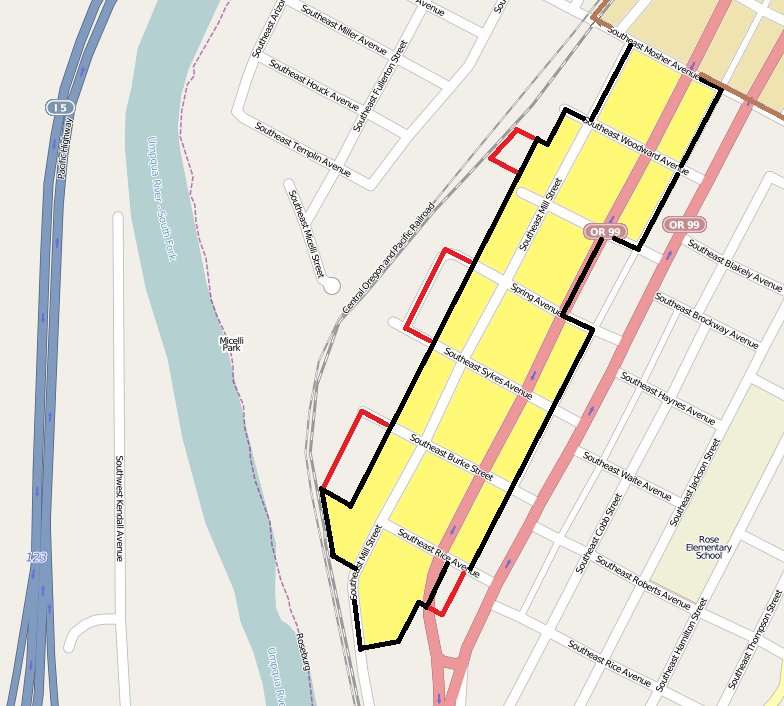 Map showing the boundaries of the Mill-Pine Neighborhood Historic District in Roseburg, Oregon, United States. The historic district is listed on the US National Register of Historic Places. Boundary data is derived from the historic district's National Register nomination form, as well as the National Register file for the district's boundary decrease dated September 26, 2011. Black boundary/yellow area: District boundaries as of September 26, 2011. Red boundary: The parcels removed from the district in the boundary decrease of September 26, 2011. Brown boundary/tan area: Boundaries of the adjacent Roseburg Downtown Historic District.